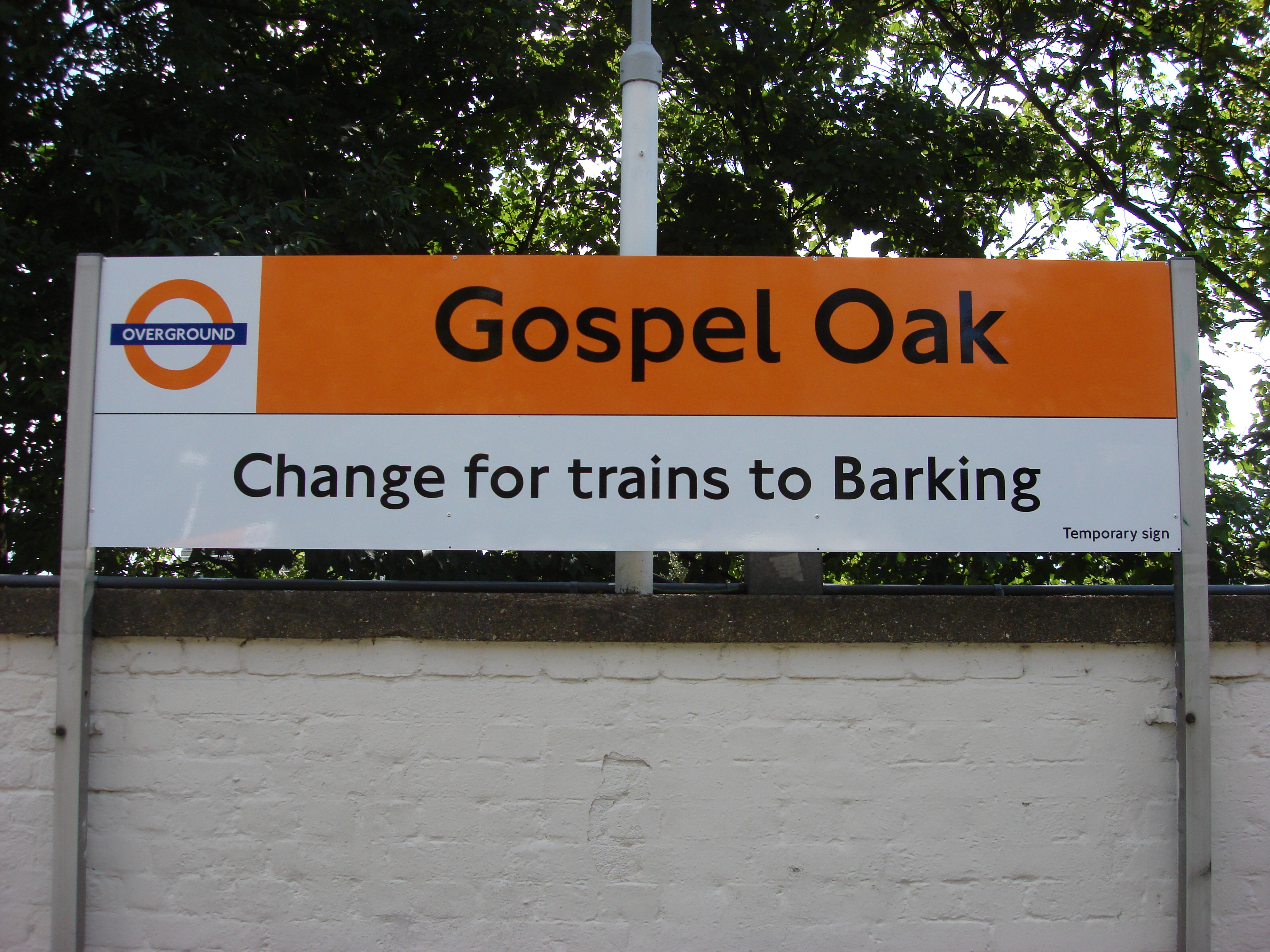 Gospel Oak railway station, platform signage